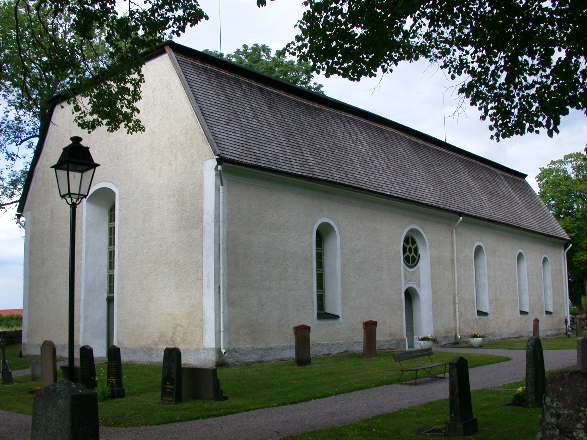 Harbo church, Heby, Diocese of Uppsala, Sweden